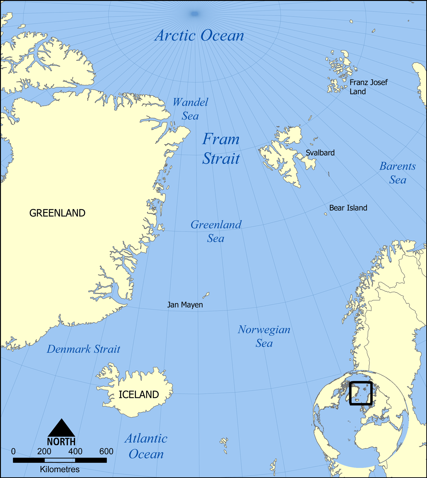 Map showing the location of the Fram Strait between Greenland and Svalbard (Norway) in the Arctic.